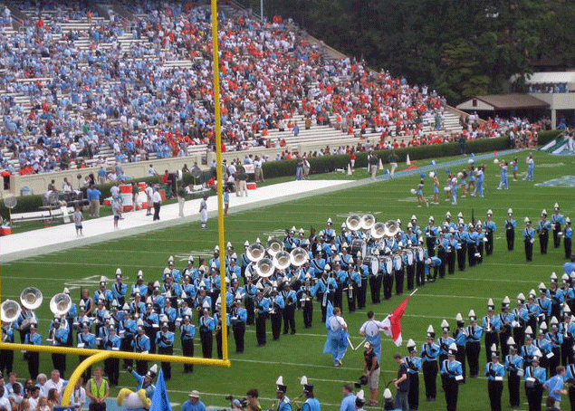 The Marching Tar Heels at Kenan Memorial Stadium on the campus of the University of North Carolina at Chapel Hill. Created by and should be attributed to Yellowspacehopper under the Creative Commons Attribution 3.0 license.